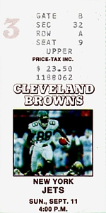 A ticket for a September 1, 1988 NFL game featuring the New York Jets versus the Cleveland Browns at Cleveland Stadium.